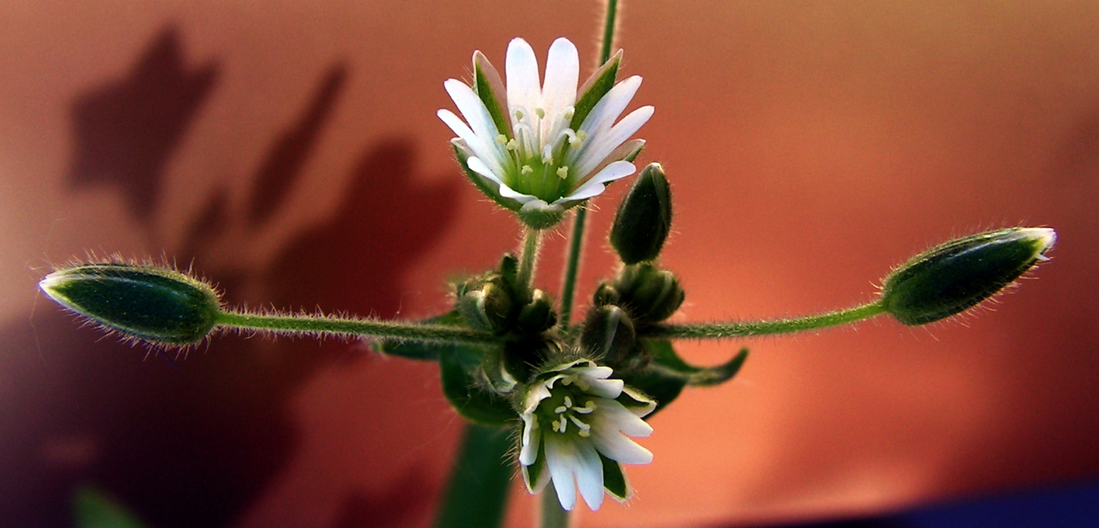 The flowers and the flowers-buds of Cerastium fontanum